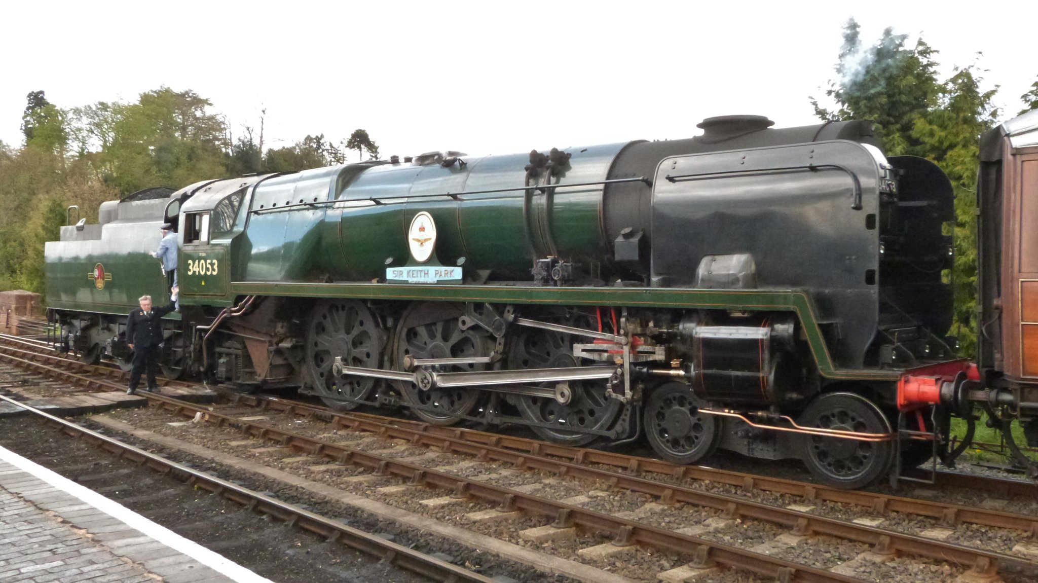 Part of the 110 strong West Country Class, these engines were lighter versions of the Merchant Navy class with wider route availability. Originally streamlined, many were rebuilt as shown and are probably some of the most handsome steam locomotives ever built in the U.K.